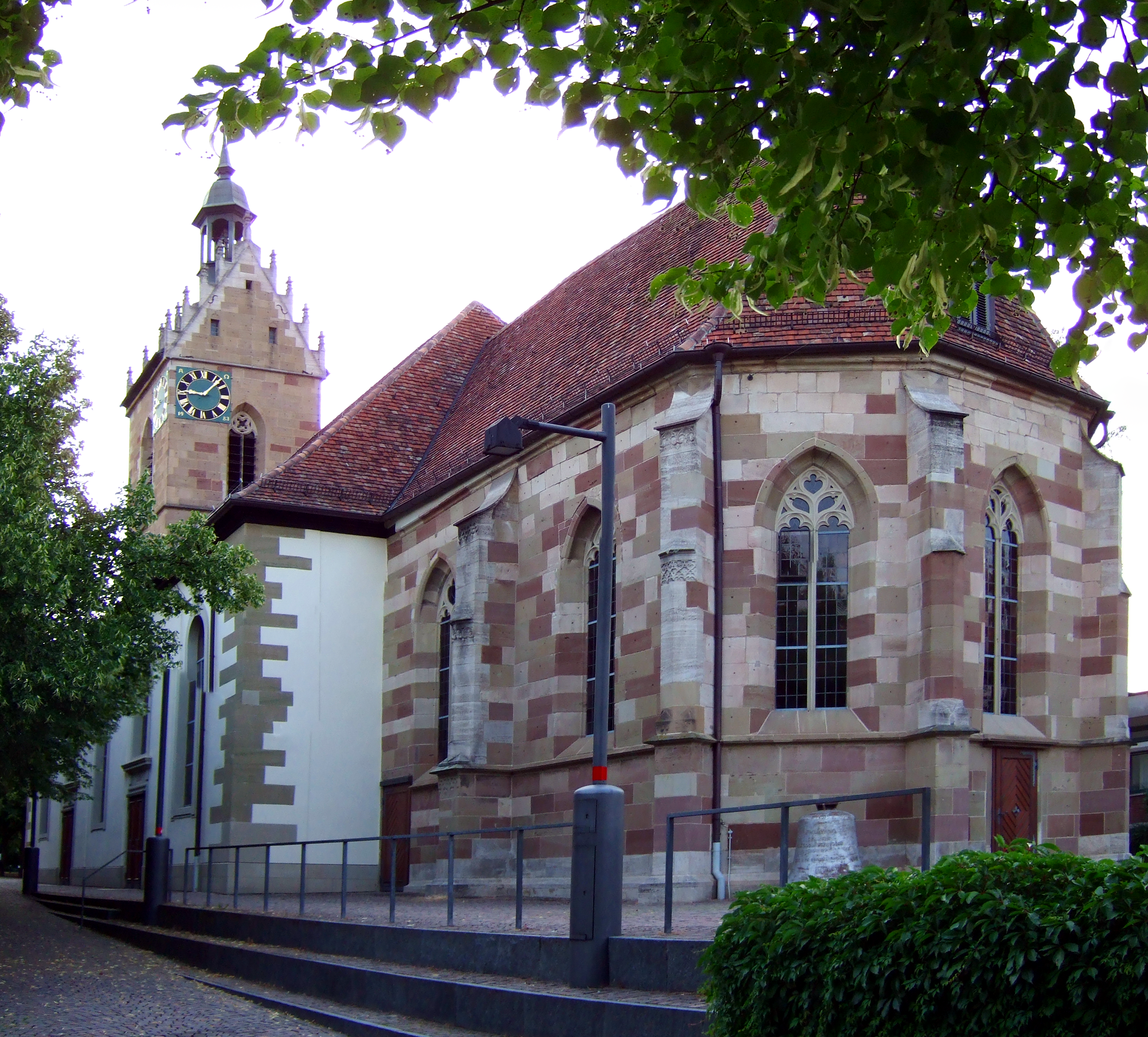 {Larry United Kingdom of South East